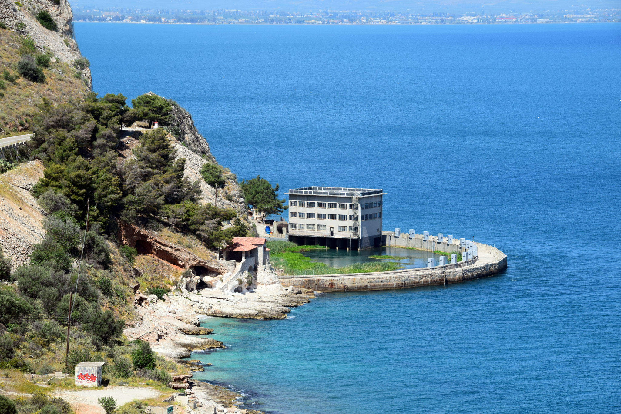 Anavalos water facilities near Xiropigado, Arcadia, Greece.